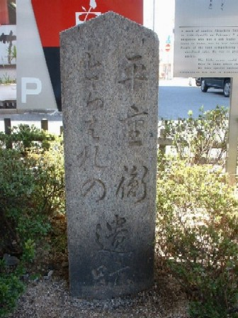 The monument where Taira no Shigehira was captured in Hyogo-pref, Japan.